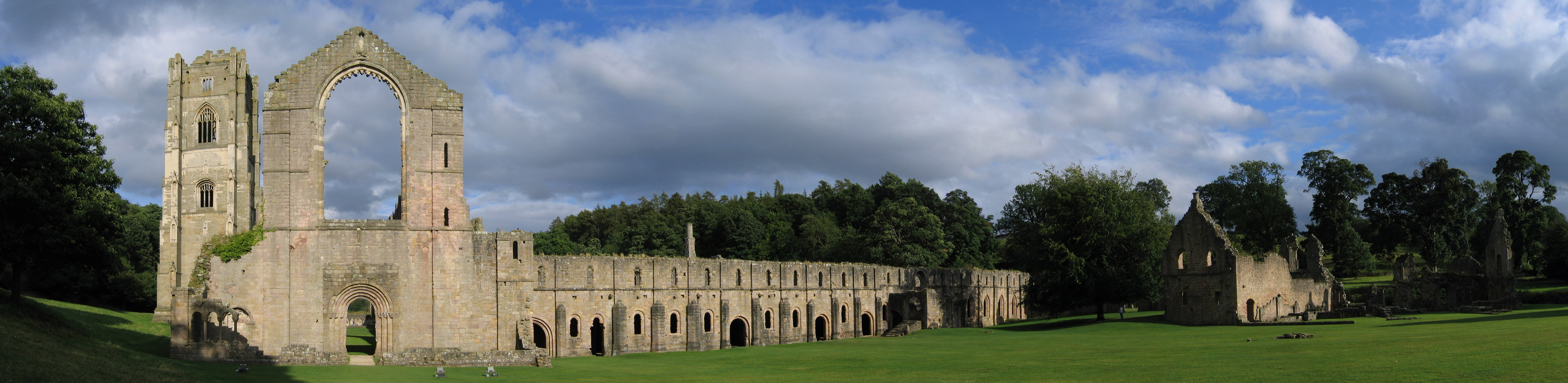 Fountains Abbey ruins seen from West, looking East and South. This abbey in North Yorkshire, England, is a ruined Cistercian monastery, founded in 1132 and operating until 1539.Panoramic image, stitched from own digital photos taken 2005-08-27.The original photo Image:Fountains Abbey view 2005-08-27.jpg extended further right, this has been cropped.